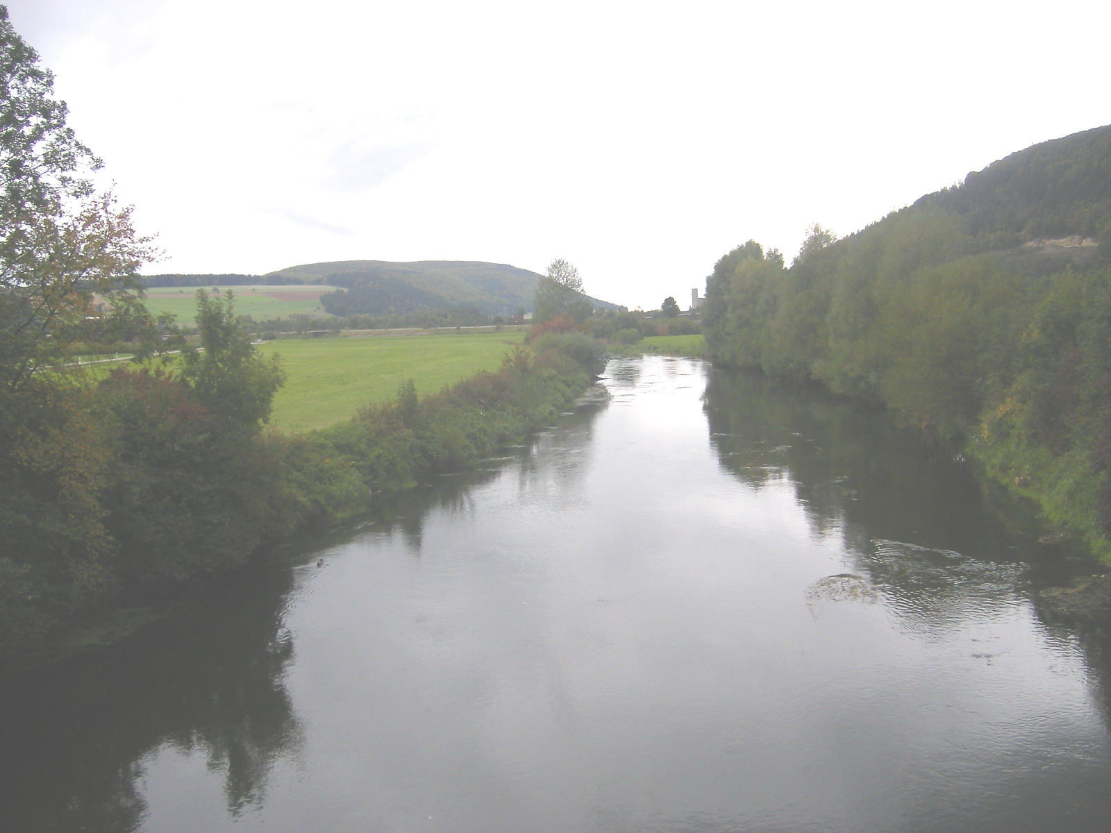 Danube at Hintschingen (Immendingen municipality)